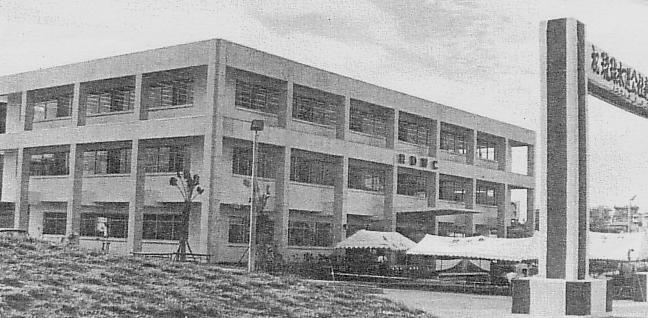 Ryukyu Domestic Water Corporation Building